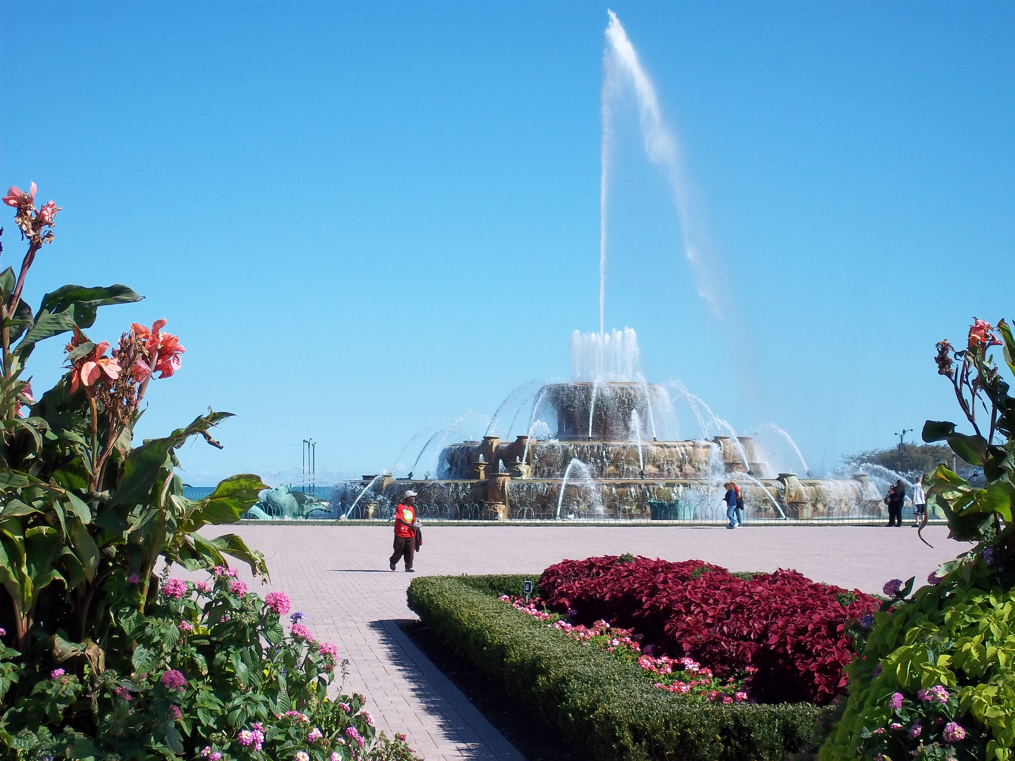 Buckingham Fountain in Grant Park Chicago